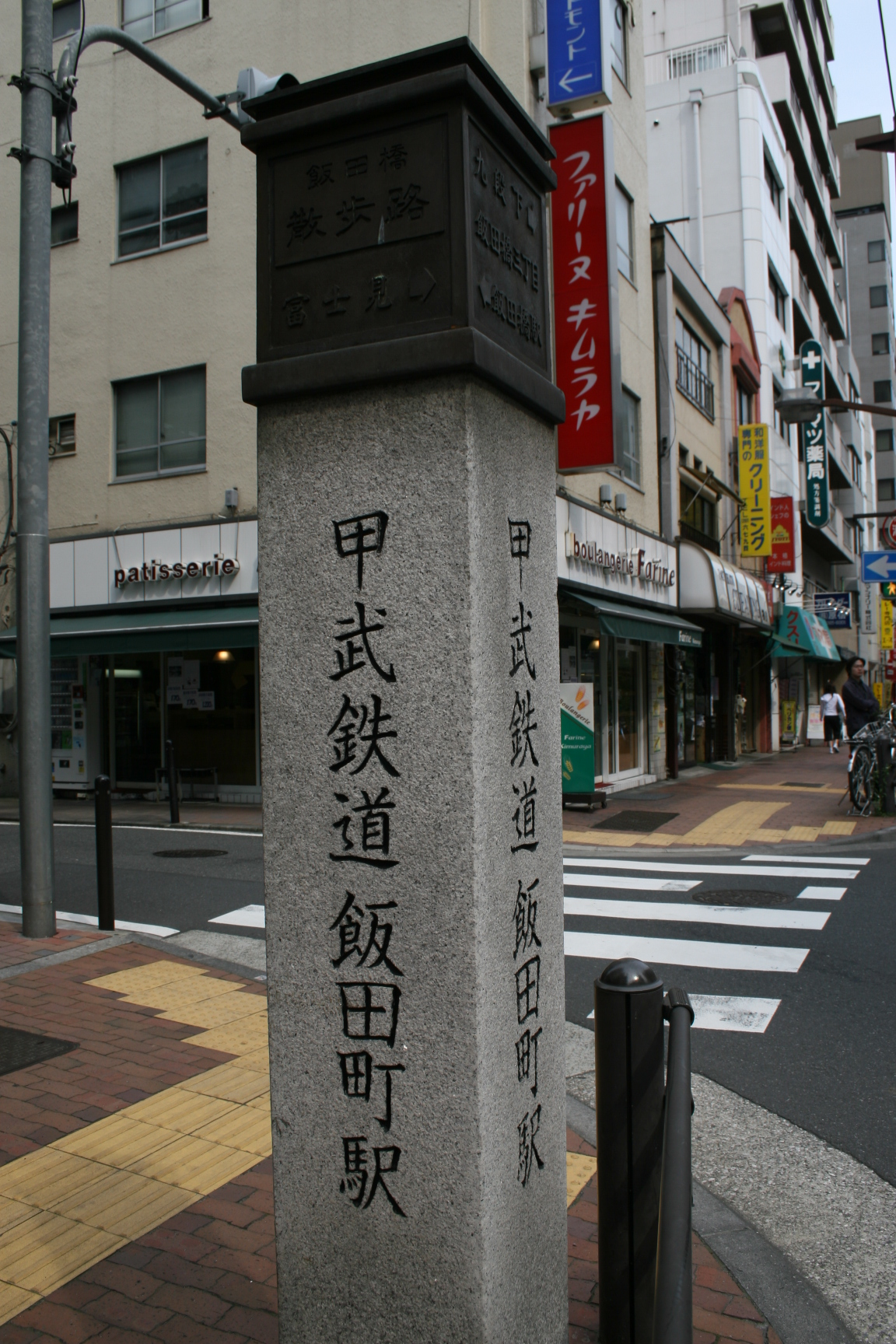 A monument marking the site of former Iidamachi railway station in Chiyoda, Tokyo. The monument stands about one block away of the actual site of the station.